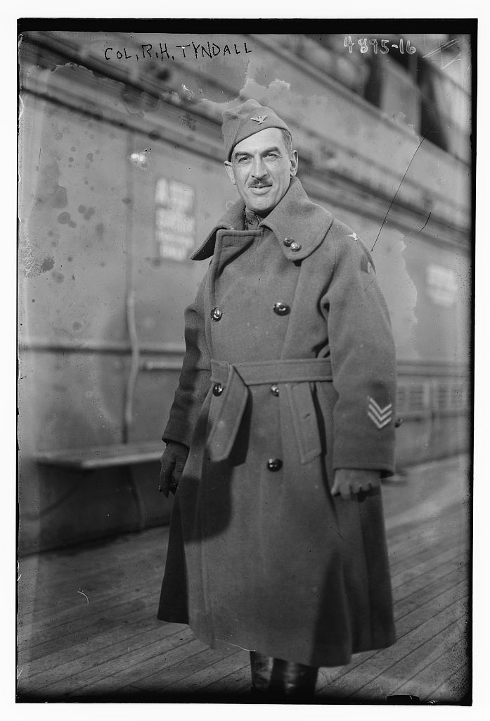 Robert Henry Tyndall in 1919 in his coat